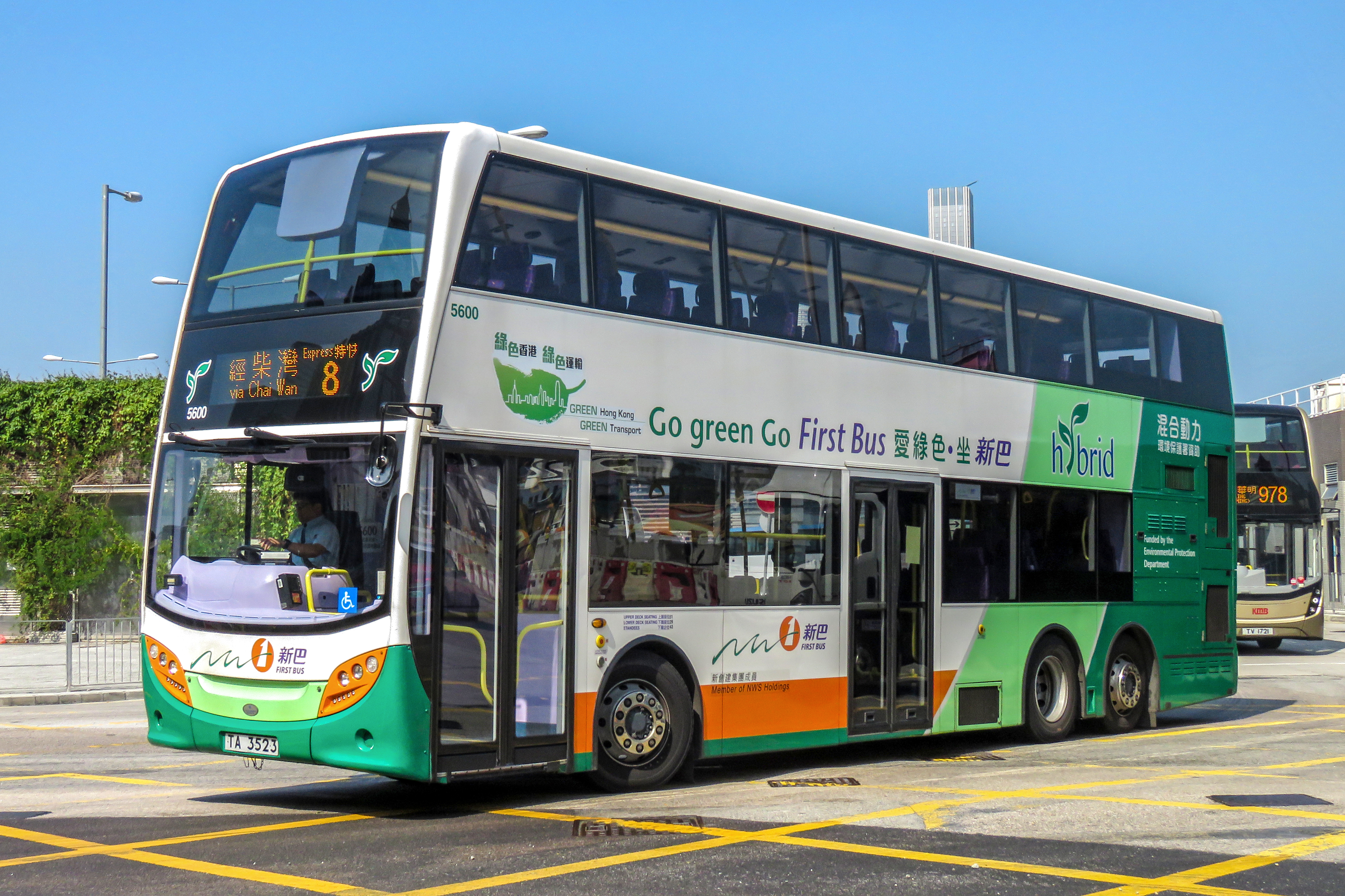 The effect is not so good at this angle at noon...